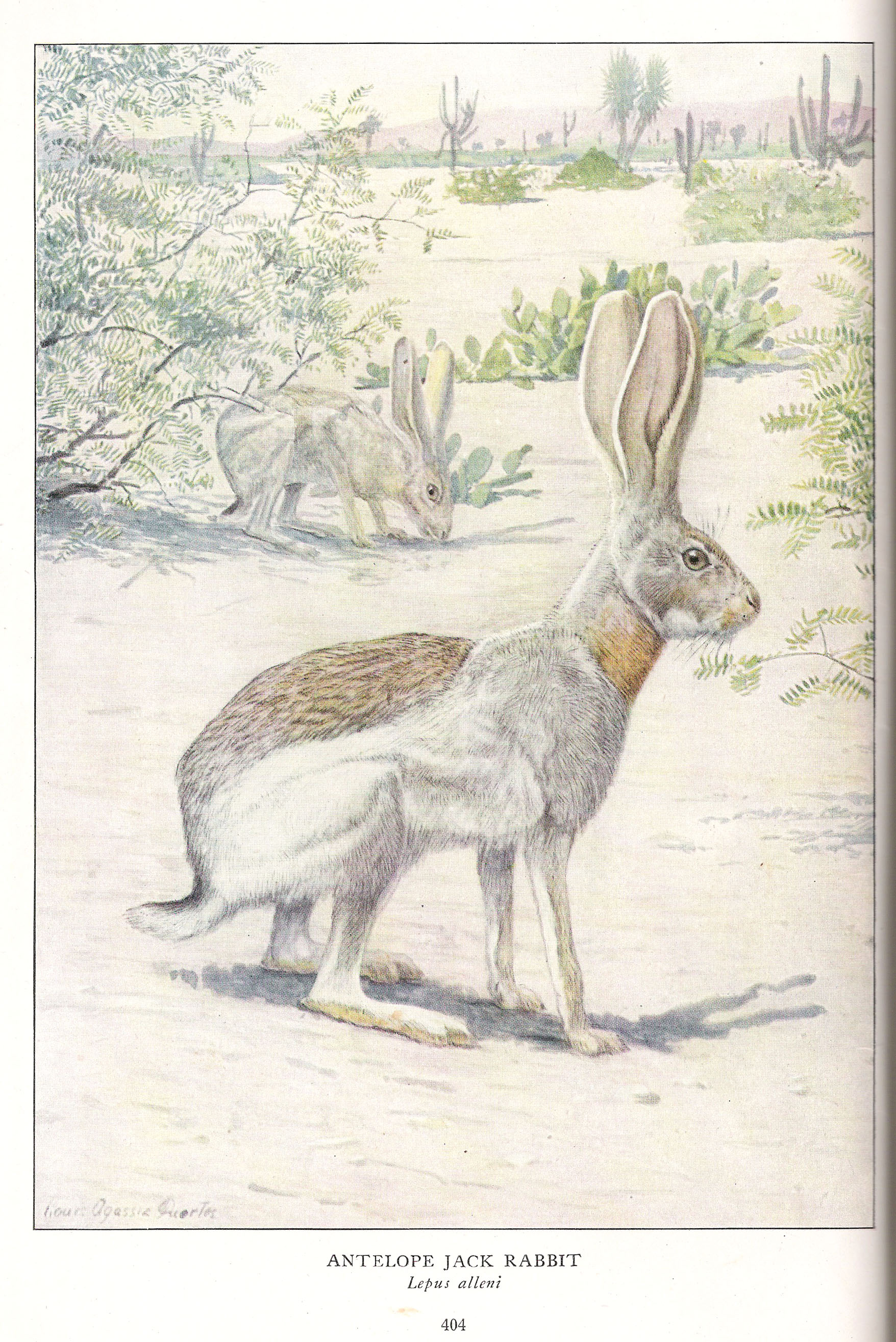 A drawing of two Antelope Jackrabbits (Lepus alleni) from National Geographic, May 1918, Vol XXXIII, No. 5, Pg 404 in an Article titled "Smaller Mammals of North America" The painting is by Louis Agassiz Fuertes